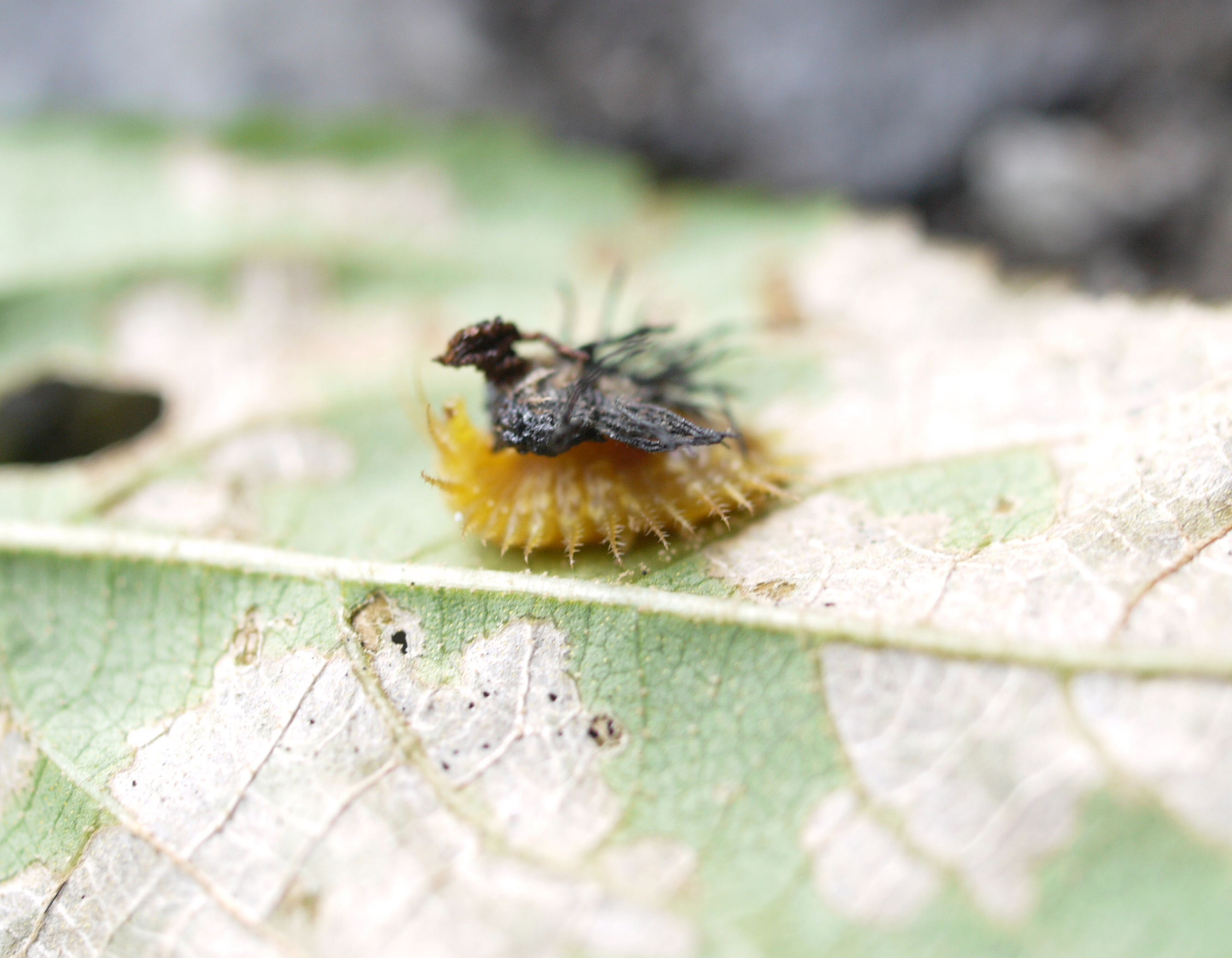 Thlaspida cribrosa